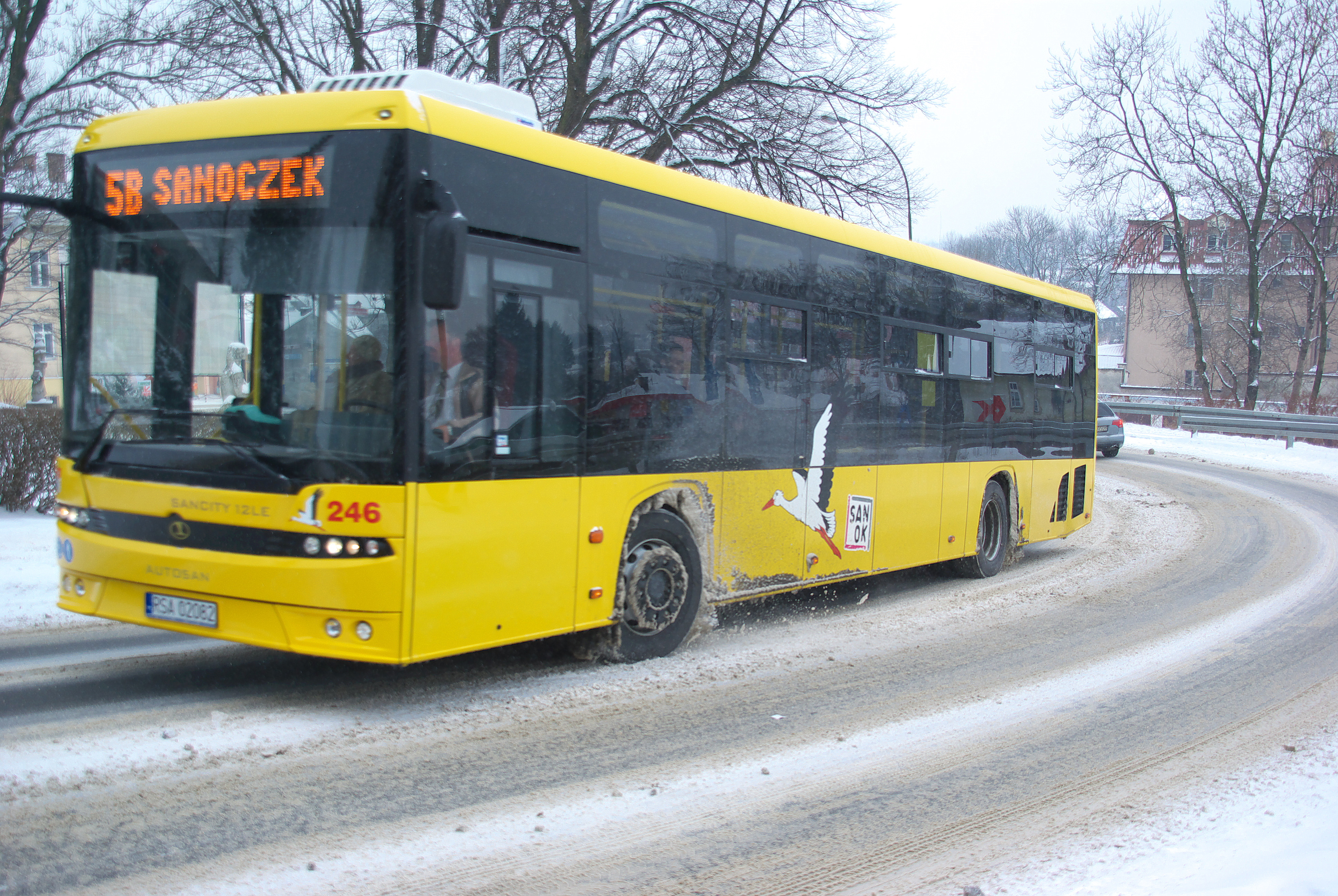 Autosan Sancity 12LE bus (#246) in Sanok, Poland. Built 2010, MKS Sanok operator.